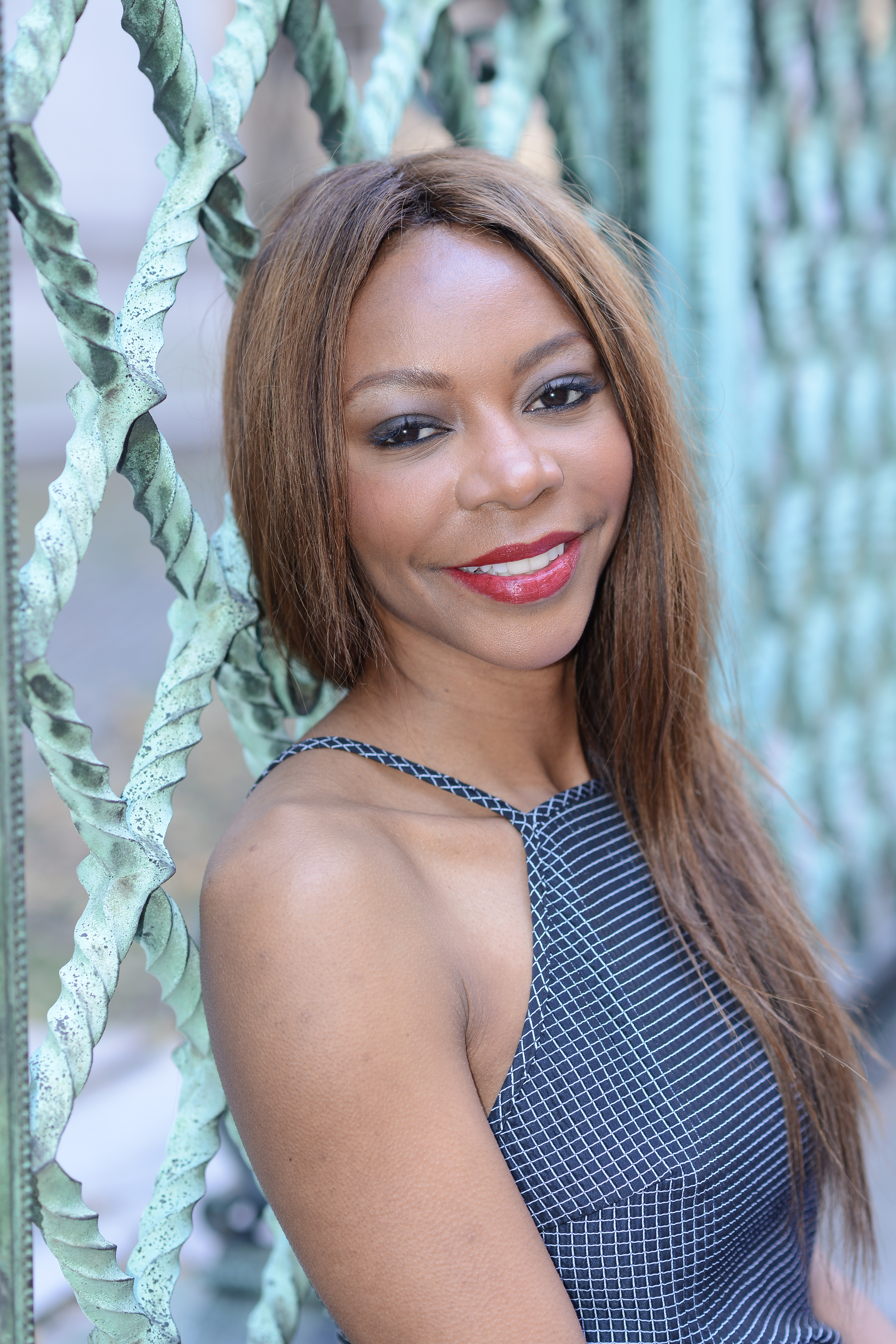 The economist Dambisa Moyo.